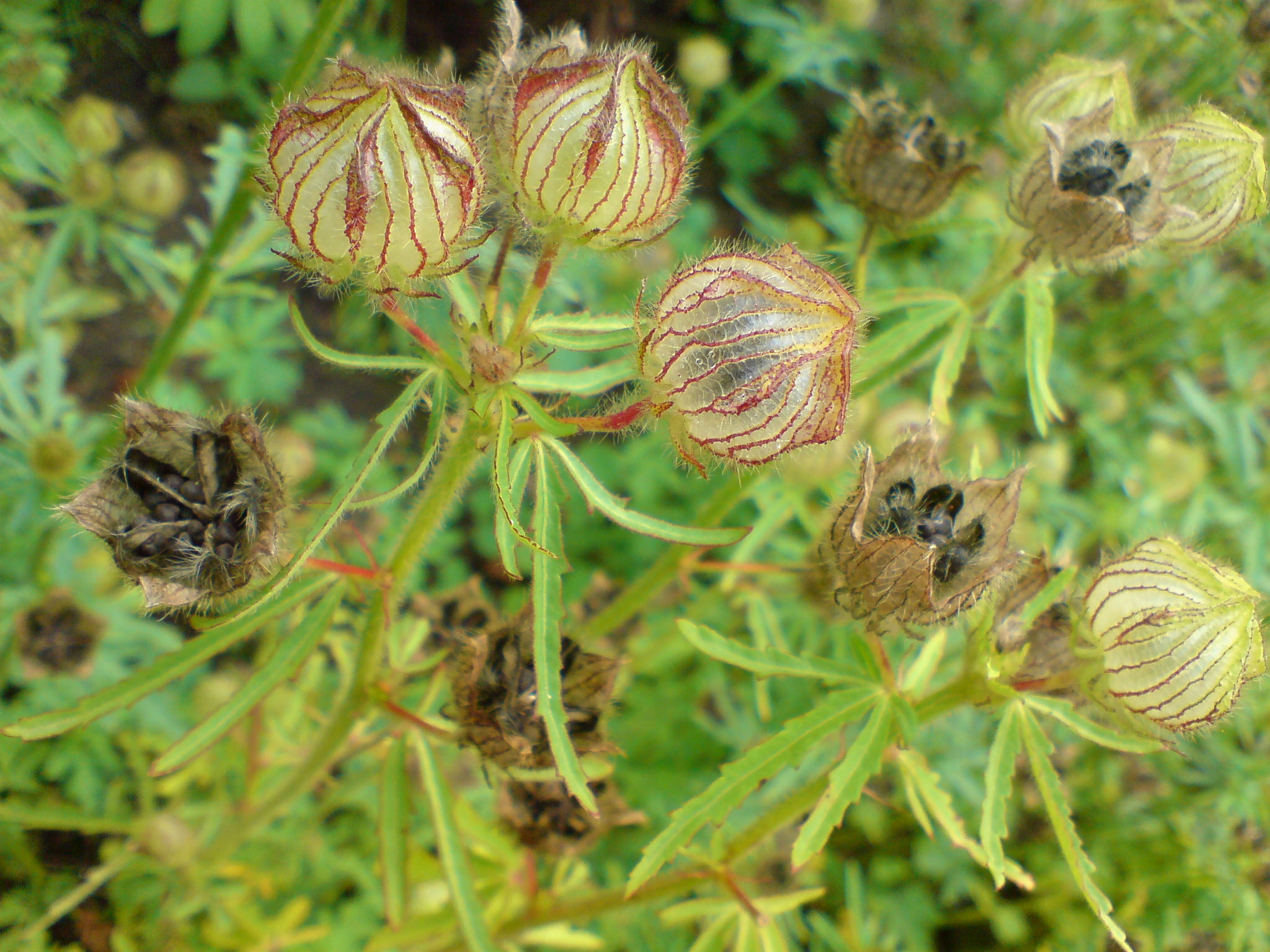 Hibiscus cannabinus (Deccan hemp, Java jute, Kenaf) - Botanical Garden Bremen